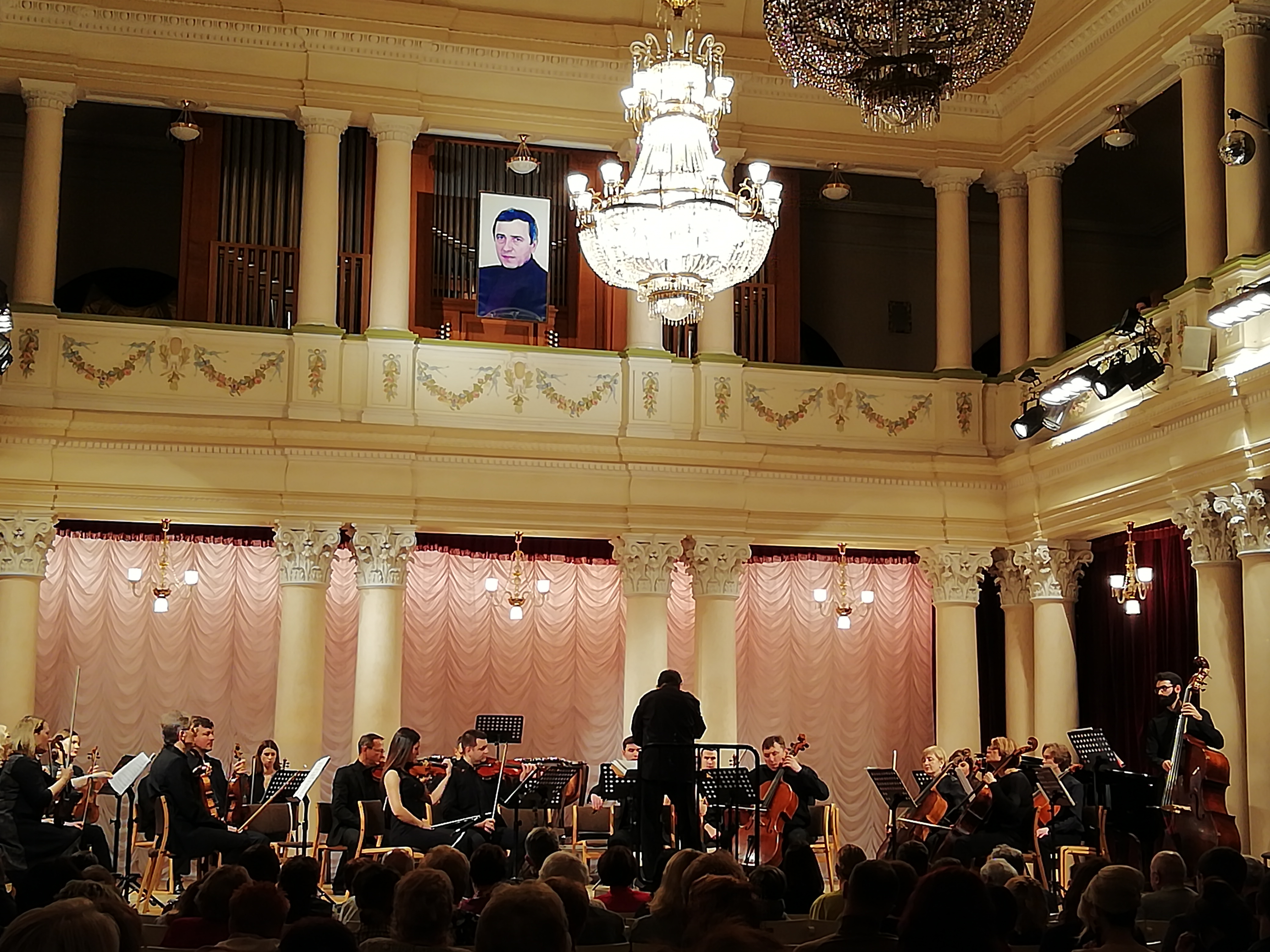 фото з концерту до 75-річчя Івана Карабиця (Національна філармонія України, 17.01.2020))